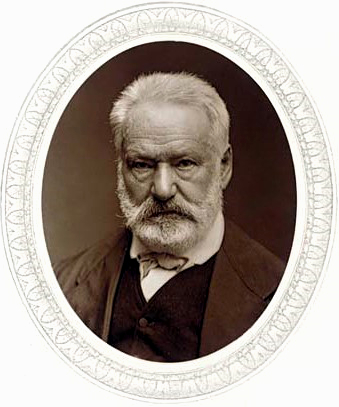 Woodburytype of Victor Hugo